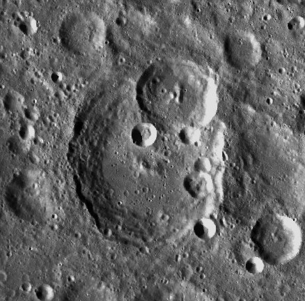 Seyfert lunar crater - LROC image